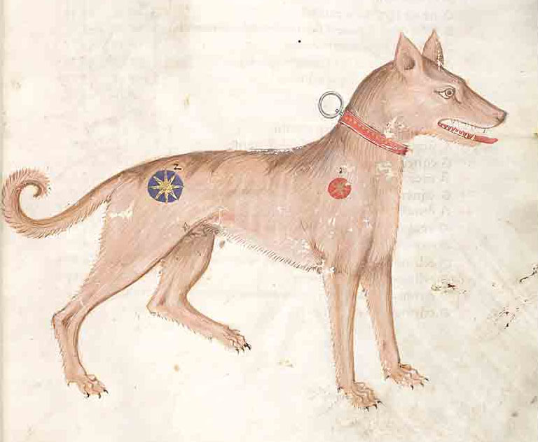 Medieval illumination of a dog, 14th century, from a Codex in the Czech Republic